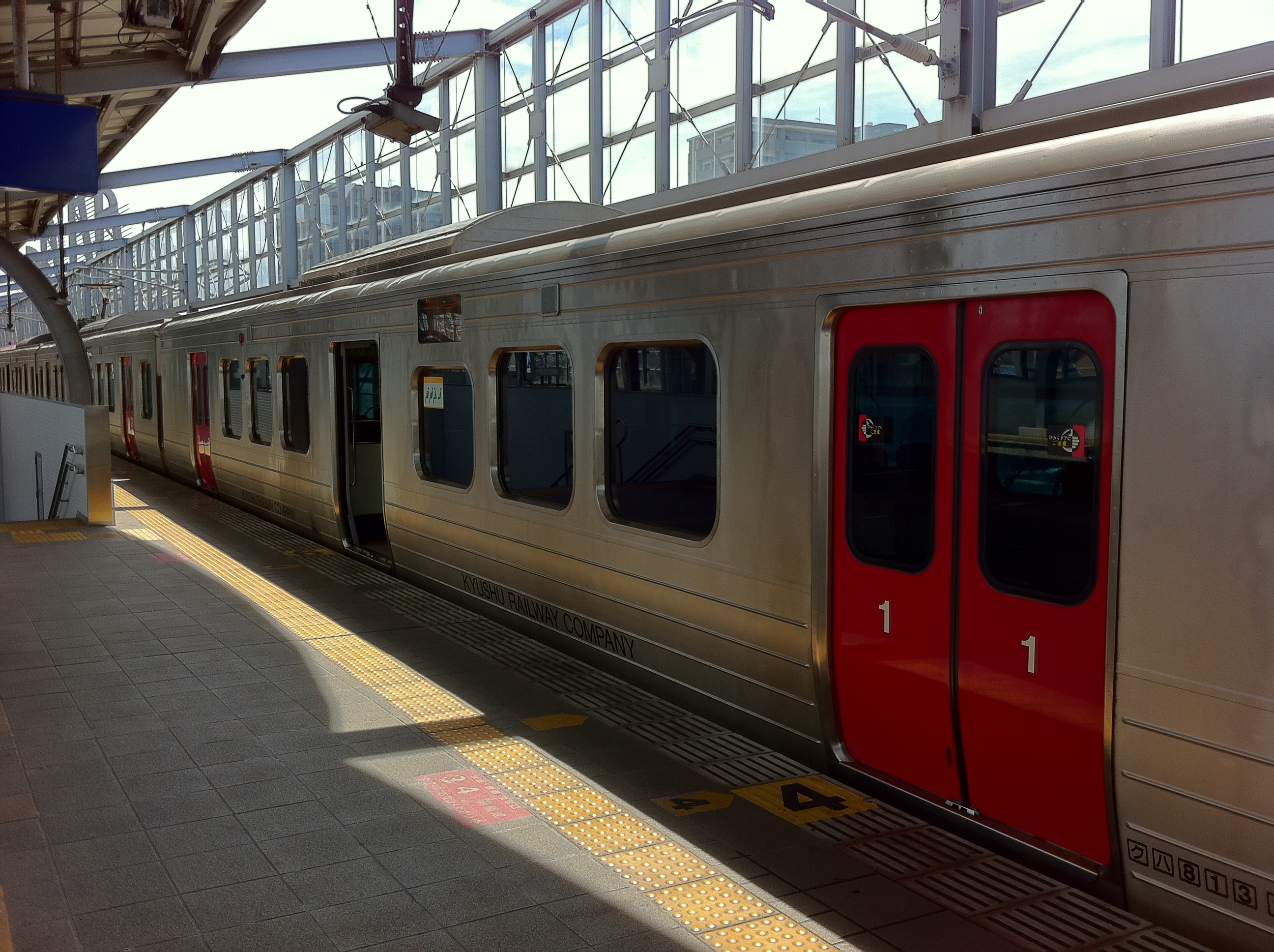 Selective Door Operation is underway in order to keep the temperature, at Yukuhashi Station